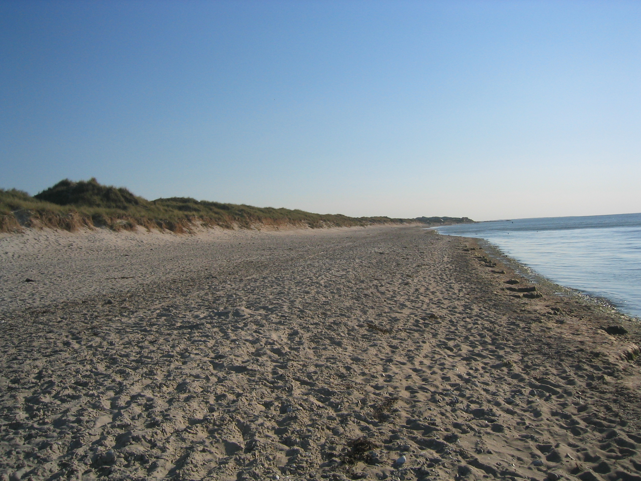 The beach at the end of Tangvej, Melbylejren, Asserbo, Denmark. The picture was taken in direction ESE of Liseleje (Note: Picture has Geotag information stored in EXIF.)